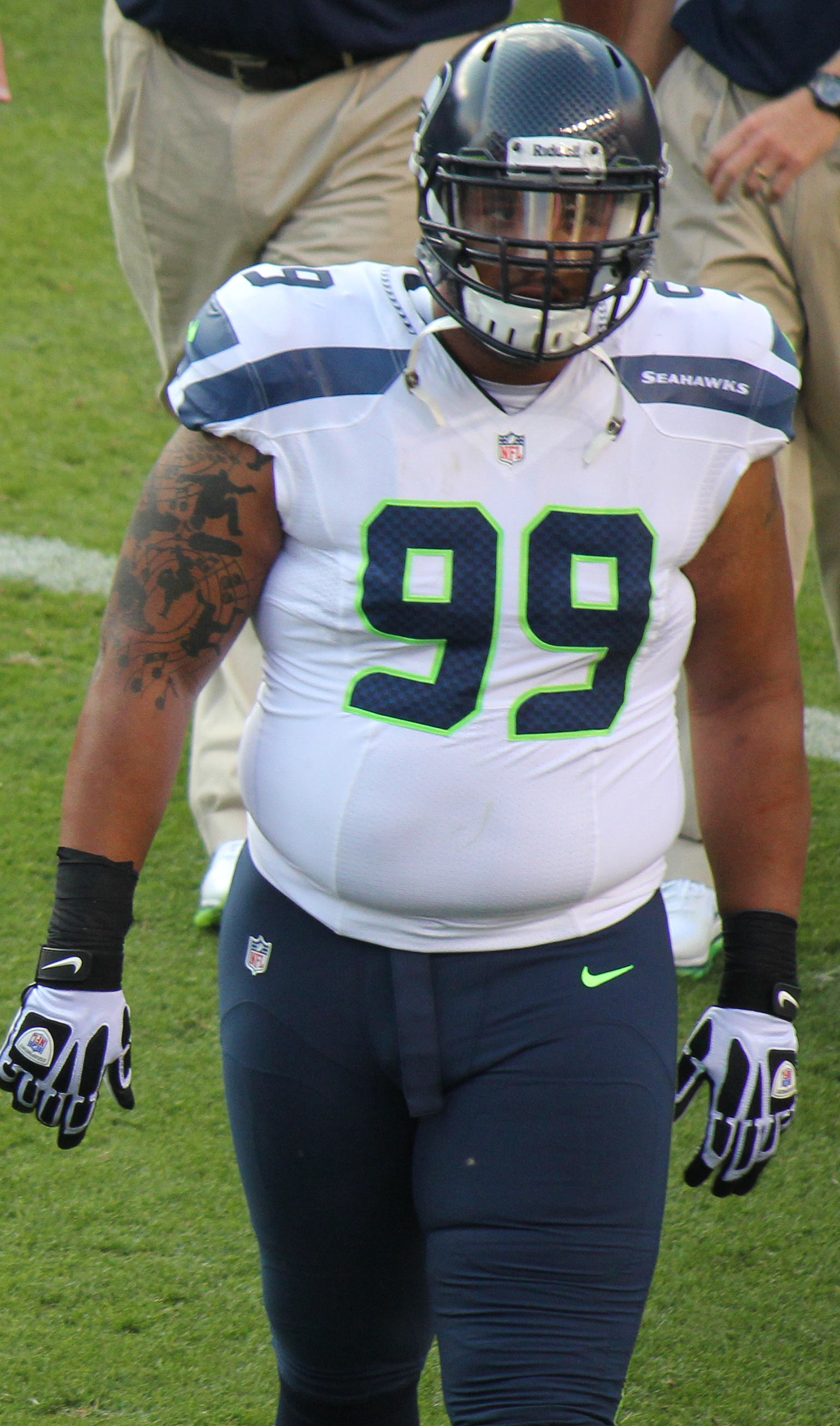 Alan Branch, a player on the National Football League.